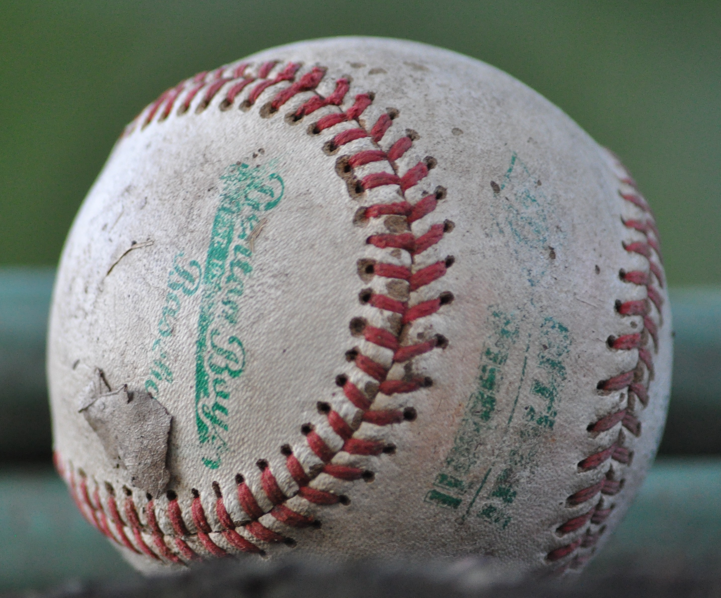 A baseball that has been extensively used